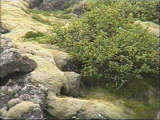 Lava covered with moss and birch in Grábrókarhraun in Borgarfjörður, Iceland Photo 1997 by Salvör Gissurardóttir